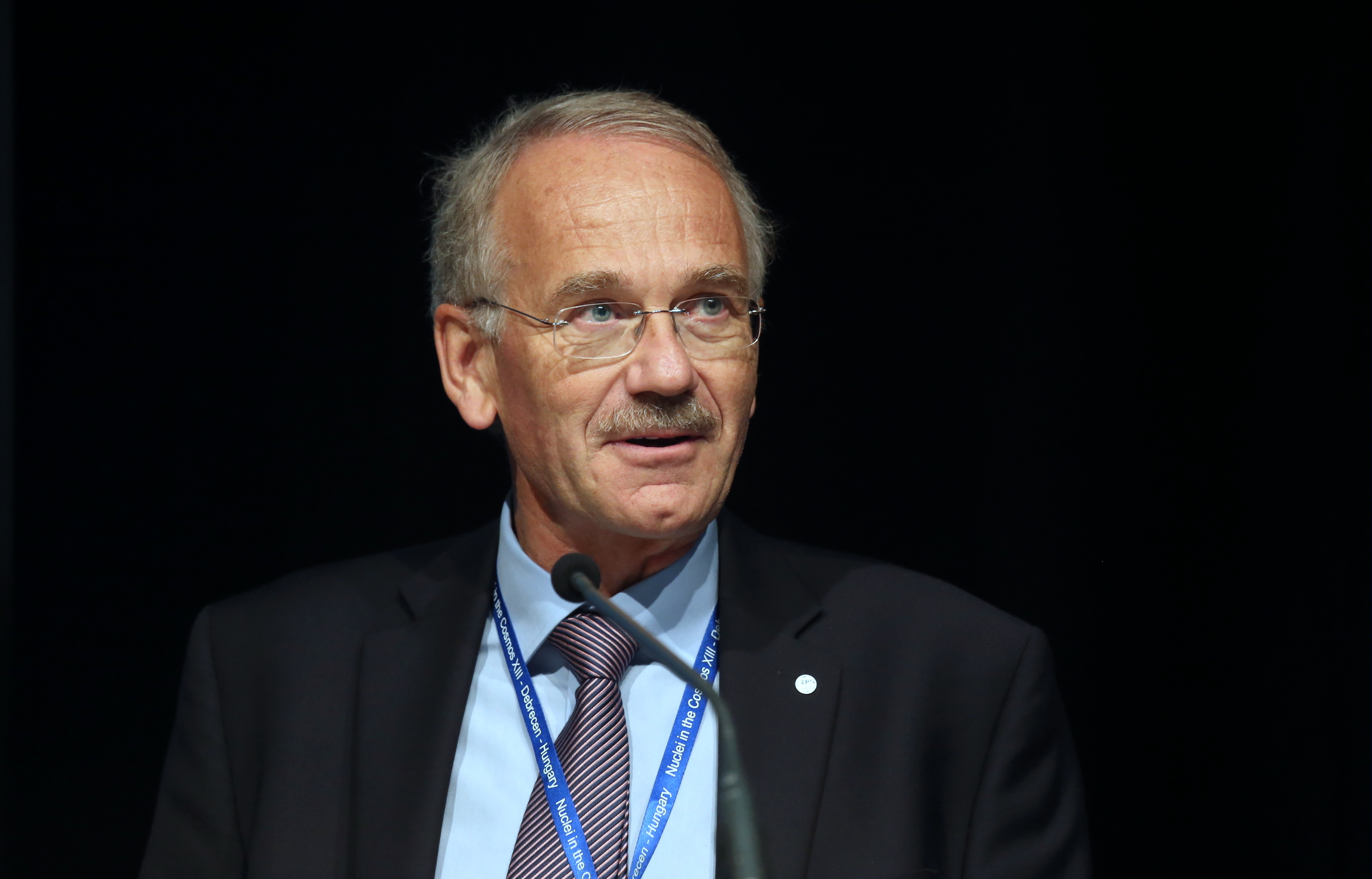 Christophe Rossel professor